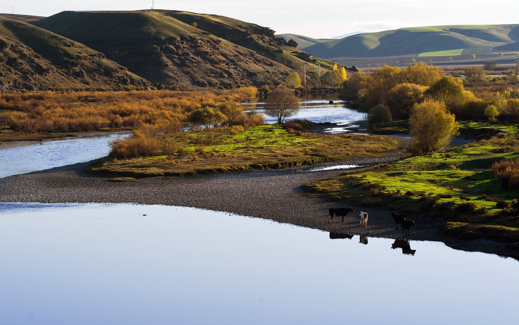 Tigris river-Qoruxçî